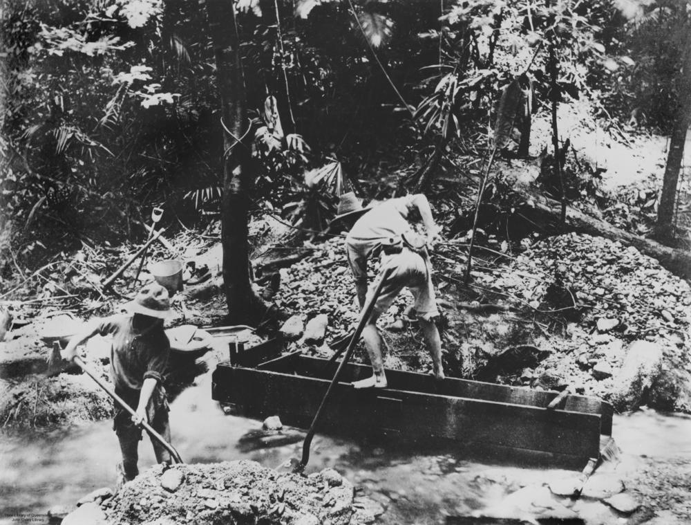 Tin mining in the Bloomfield River district, ca. 1884 Tin mining over divide of Bloomfield Valley, 1884. [Description supplied with photograph] 'The tin mines are situated on the south side of the river, east of Peter Botte Mountain, towards the Daintree watershed. Upwards of 100 men are at work getting alluvial tin, which is packed from seven to fourteen miles to the river, where it is shipped in small boats to Cooktown.' [Source of description: The Queenslander, 27 February 1886, p.349] The image shows two men searching for tin in the river.